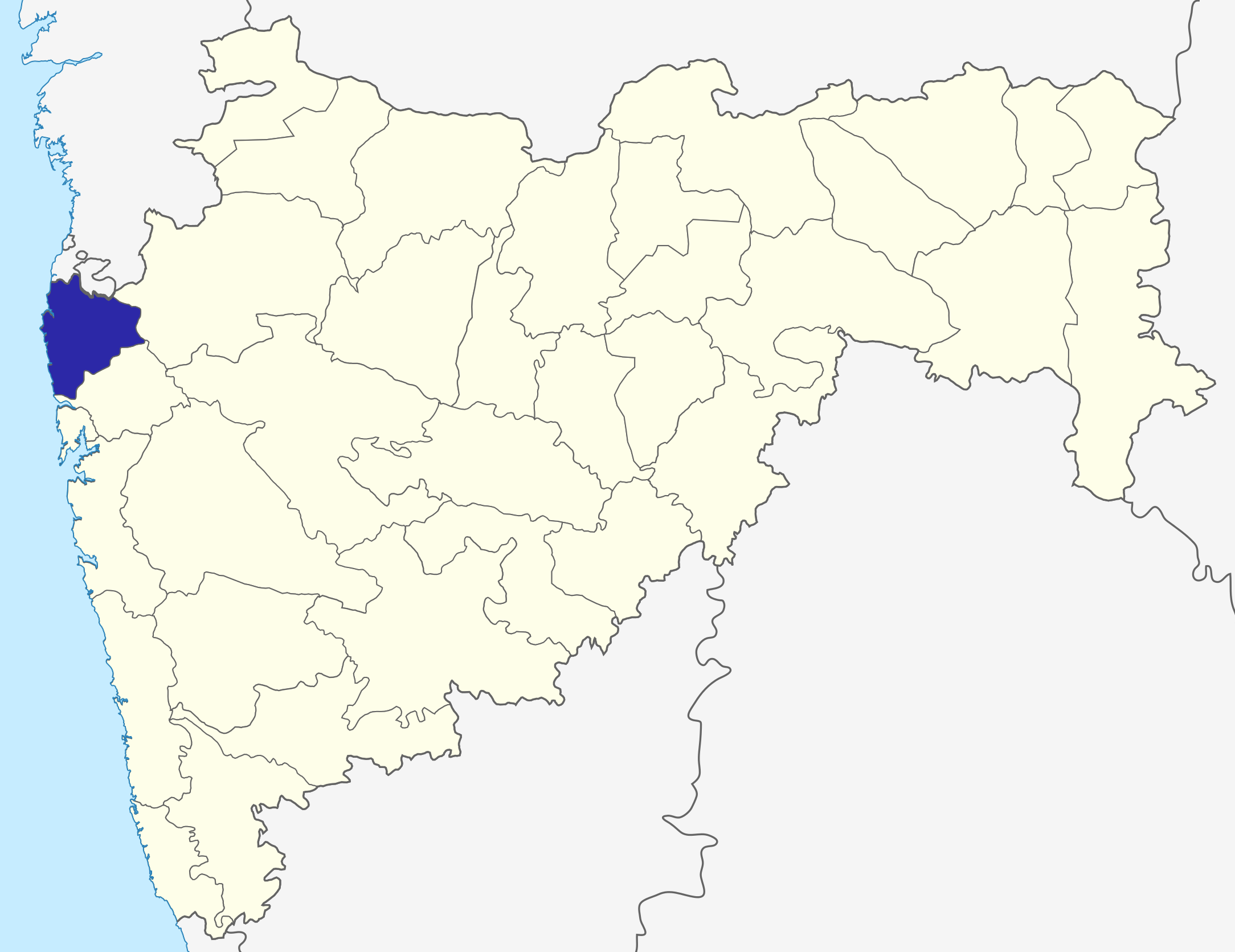 Location of Palghar district in the Indian state of Maharashtra